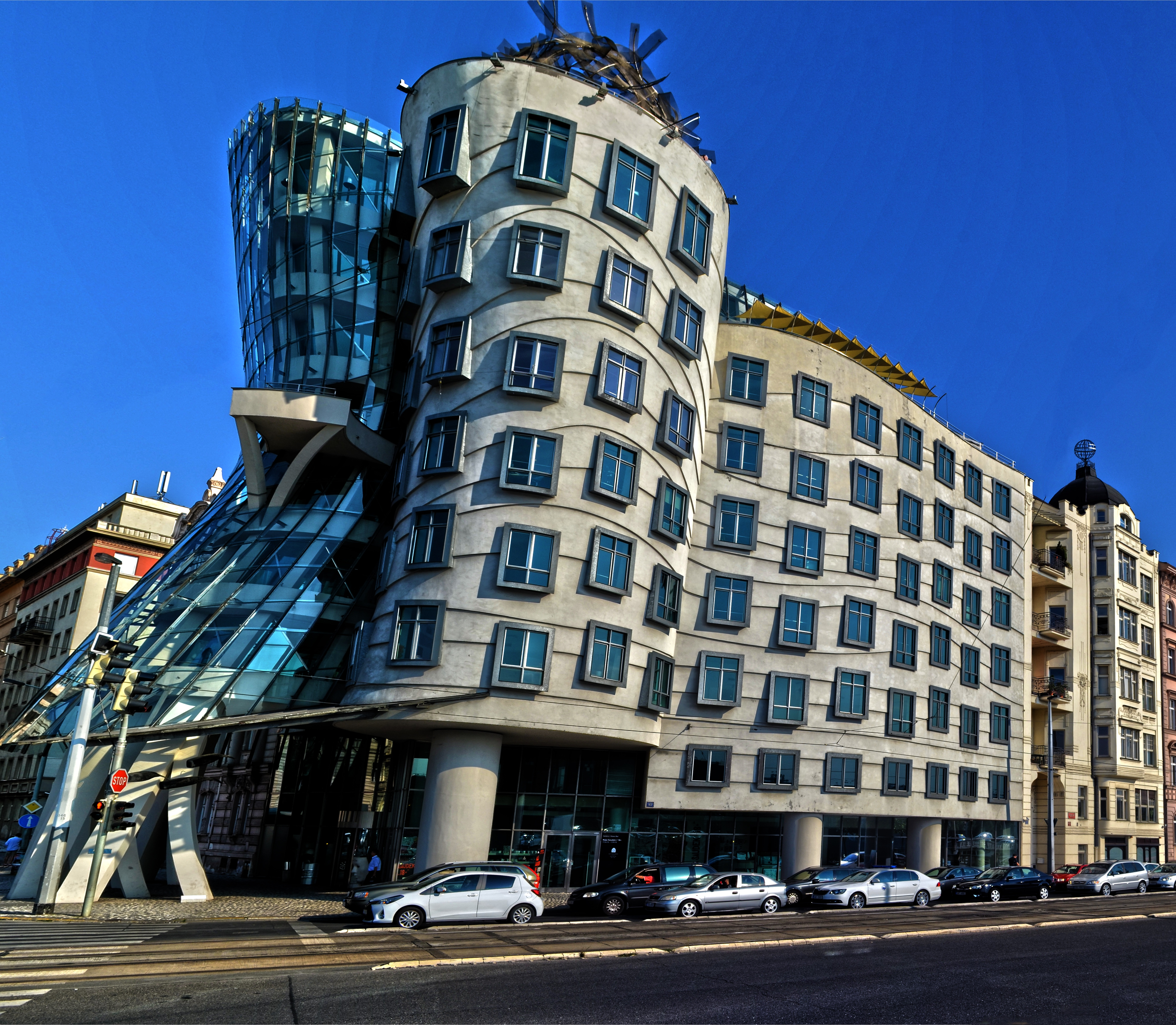 Image of the Dancing House in Prague.